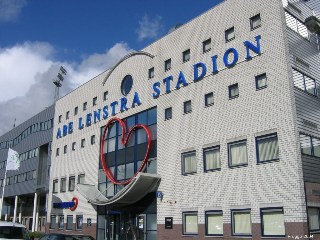 Football stadium "Abe Lenstrastadion" in Heerenveen (Netherlands)